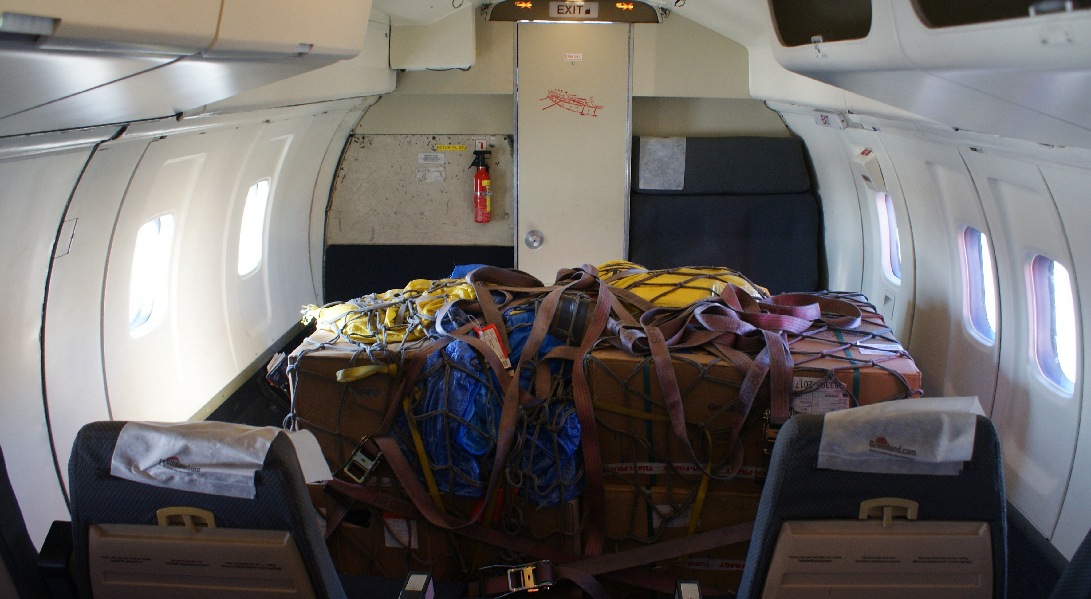 Cargo section in the cabin of the Air Greenland de Havilland Canada Dash-7 "Nipiki".